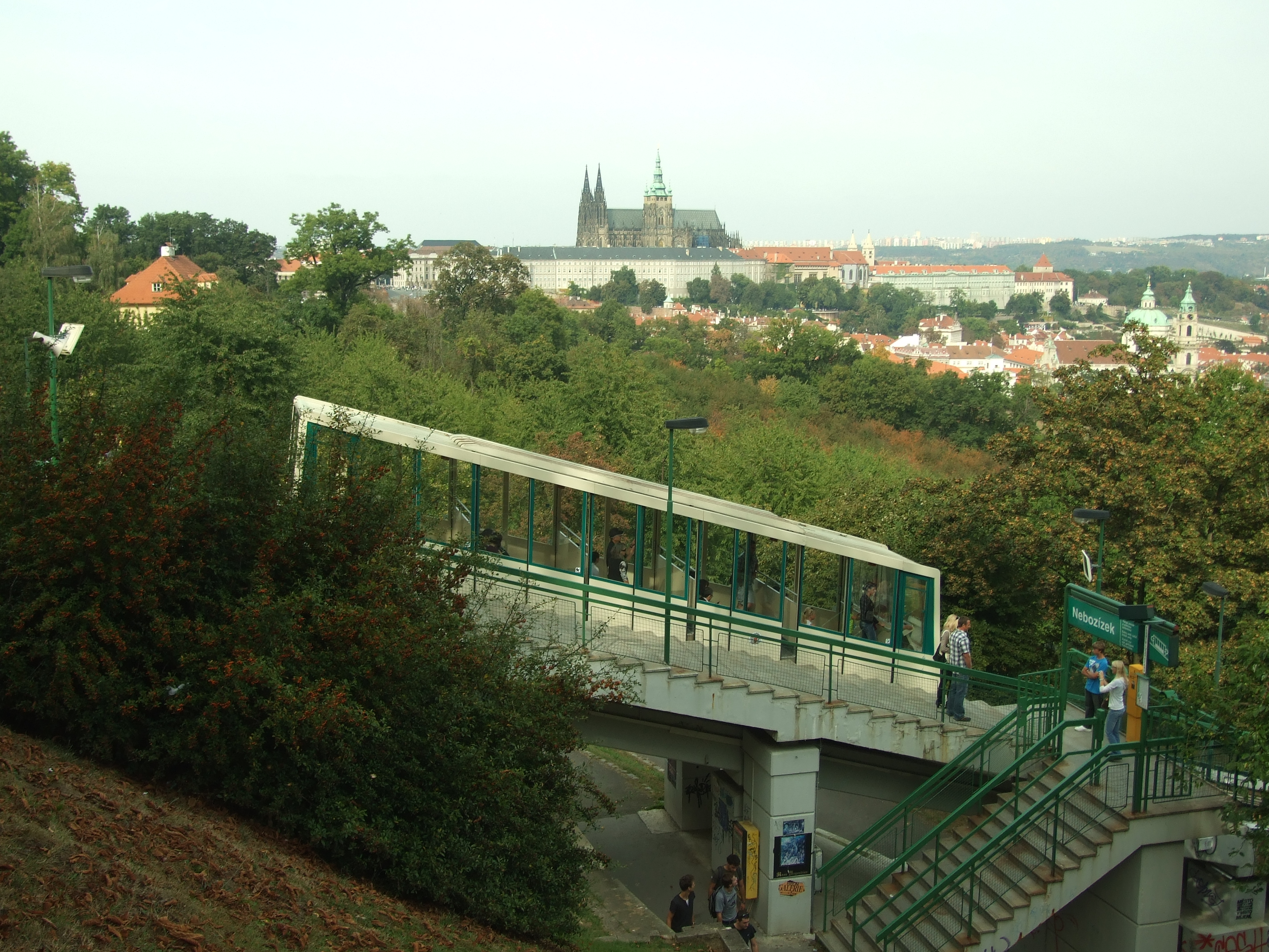 Petřín funicular - Nebozízek station in Prague, CZhelp